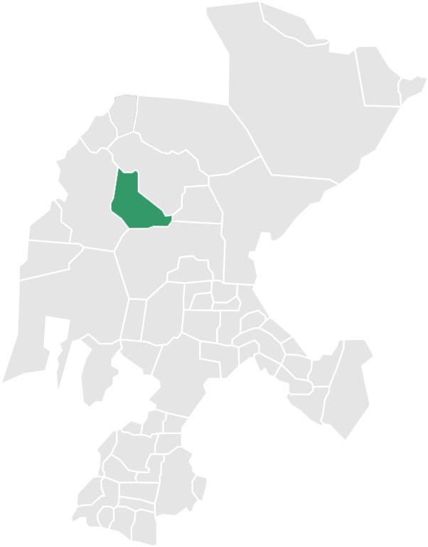 Map of the Municipality of Saín Alto in Zacatecas, México.